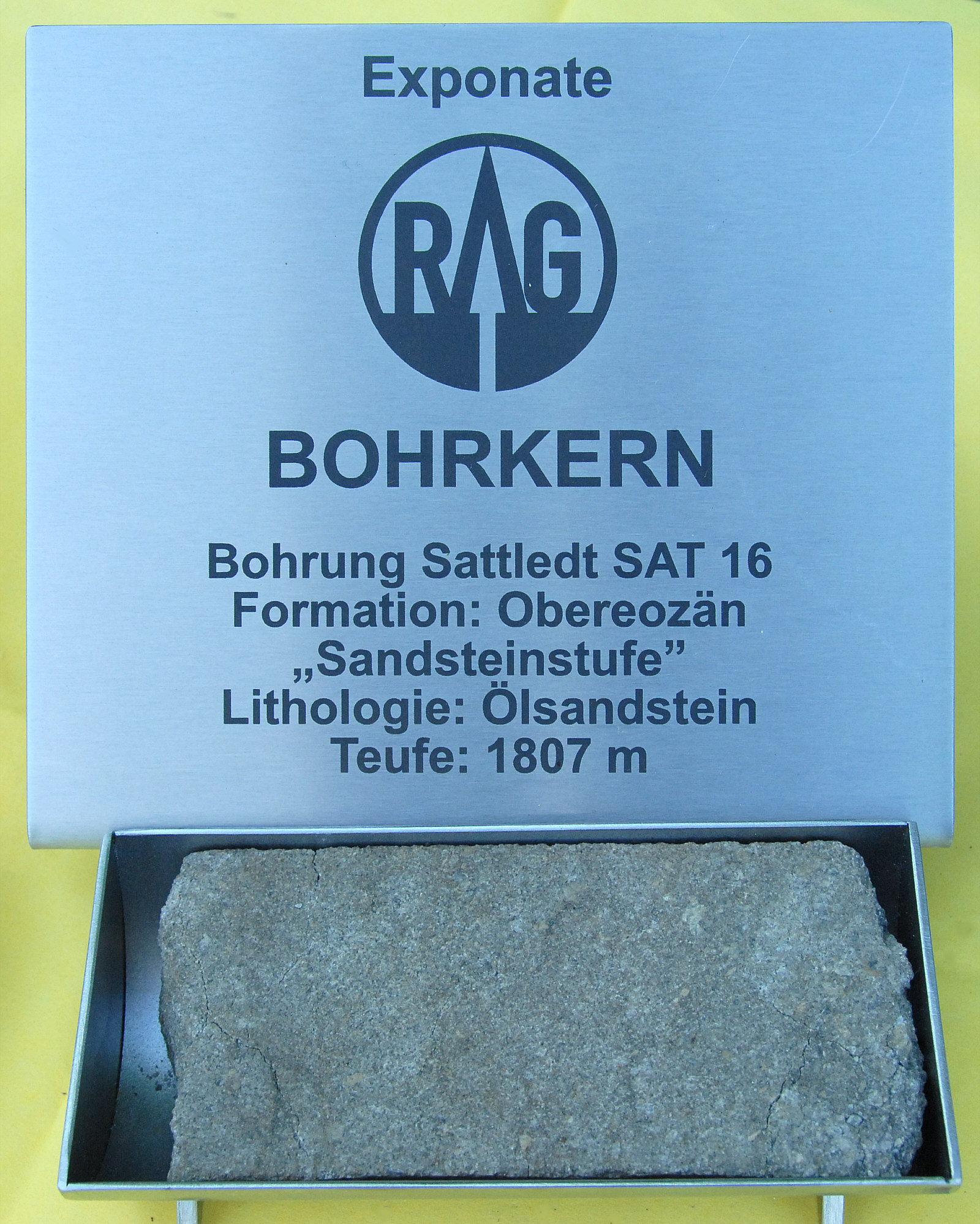 Drill core section - Oil sandstone from Upper Eocene from the Sattledt oil field in Upper Austria